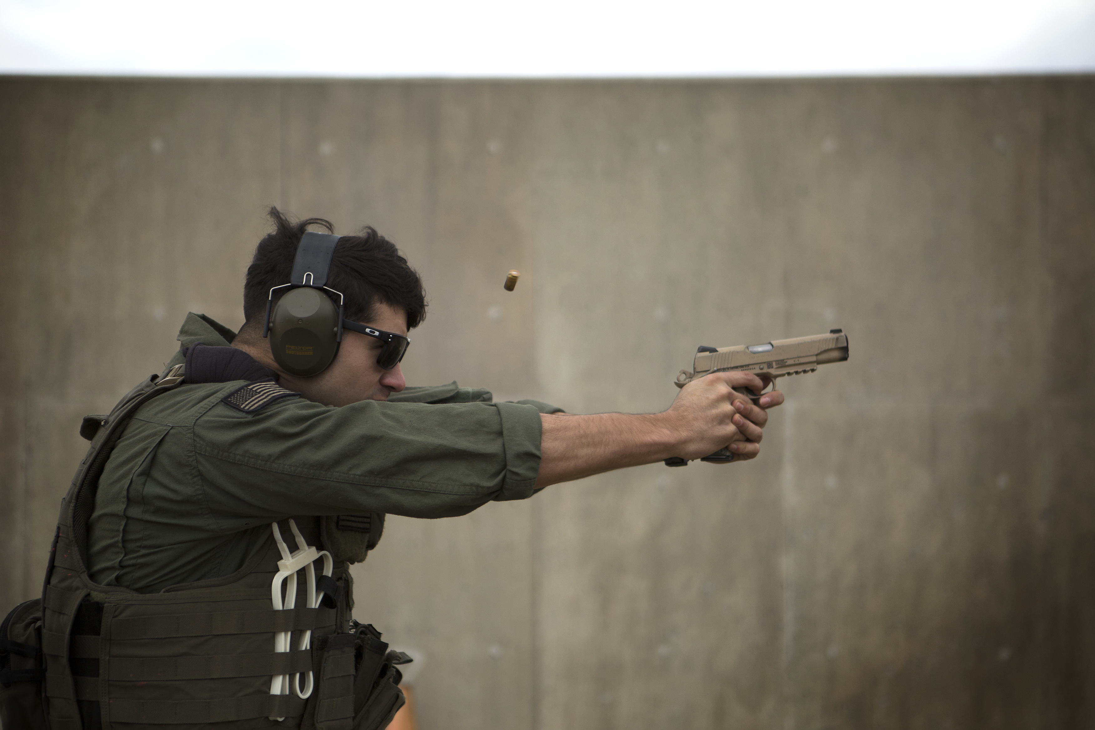 Cpl. Michael Fuentez fires an M45A1 close-quarters battle pistol at targets during weapons qualification Jan. 8 at Range 174 on Camp Hansen. Fuentez is with the Special Reaction Team, Camp Foster Provost Marshal’s Office, Marine Corps Installations Pacific-Marine Corps Base Camp Butler, Japan and a Los Angeles, Calif. native. SRT is the military equivalent to Special Weapons and Tactics teams. (U.S. Marine Corps photo by Sgt. Matthew Callahan/Released)